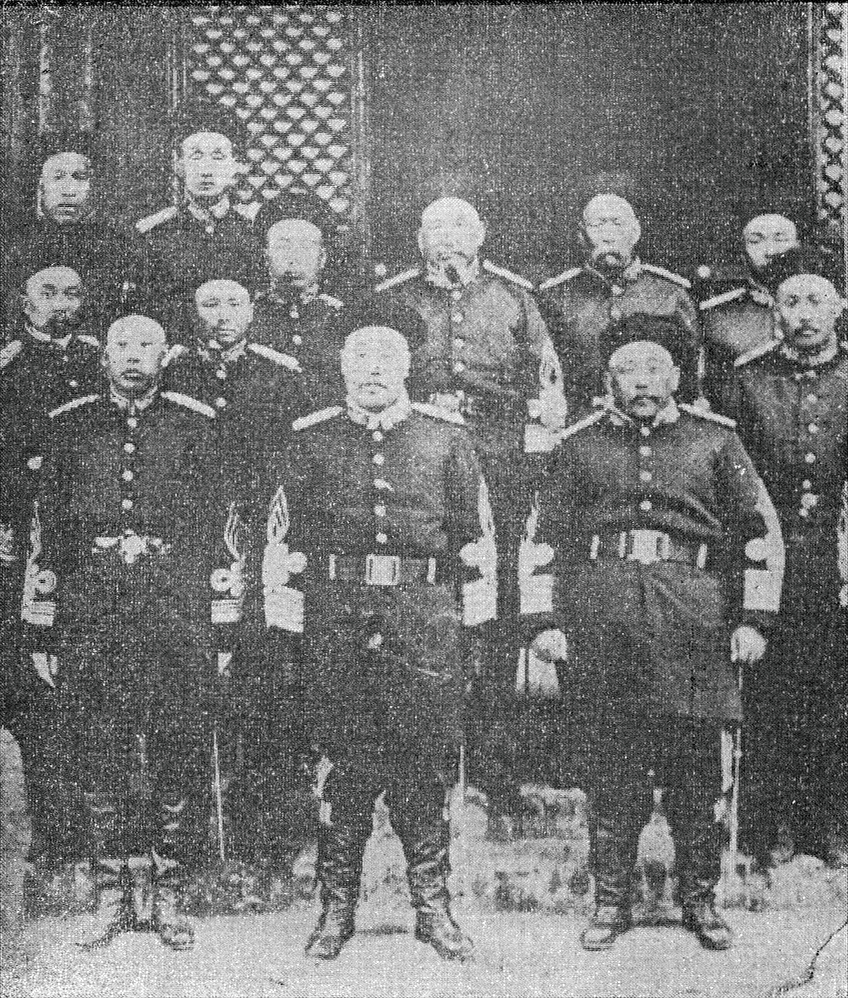 Te Lan and Yuan Shikai